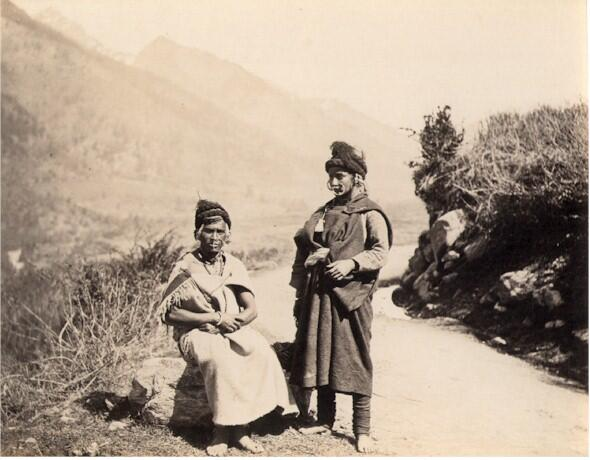 Historic Photograph of Khas women, an Indo-Aryan ethno-linguistic group, circa 1880 A.D. at some Pahadi Highway